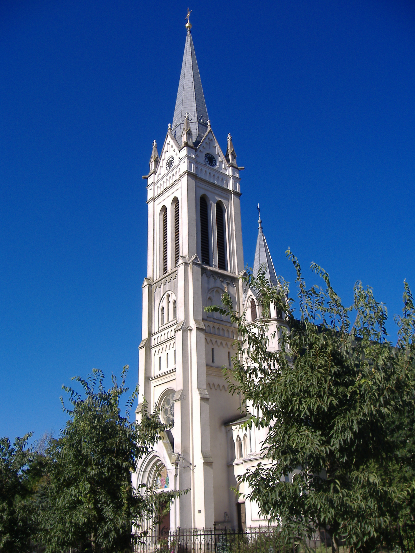 Side view of the Roman catholic church in the newtown of Makó, Hungary.